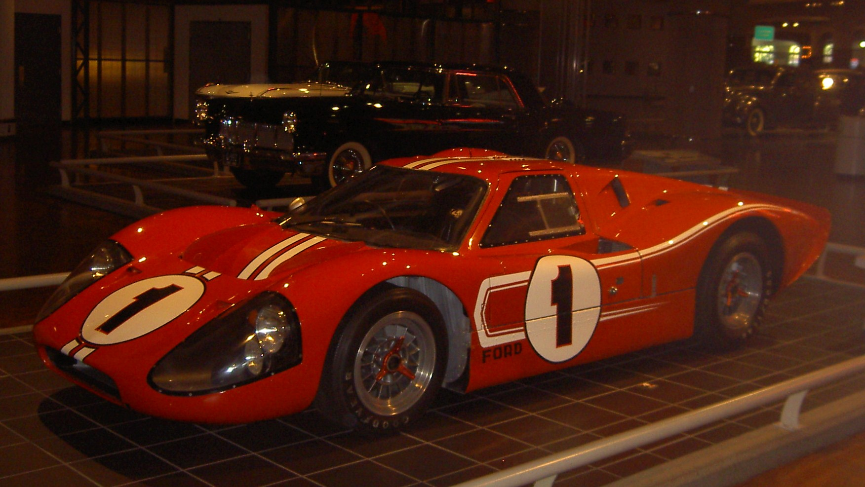 Ford GT40 Mk IV shown at Henry Ford Museum[1] in Dearborn, MI